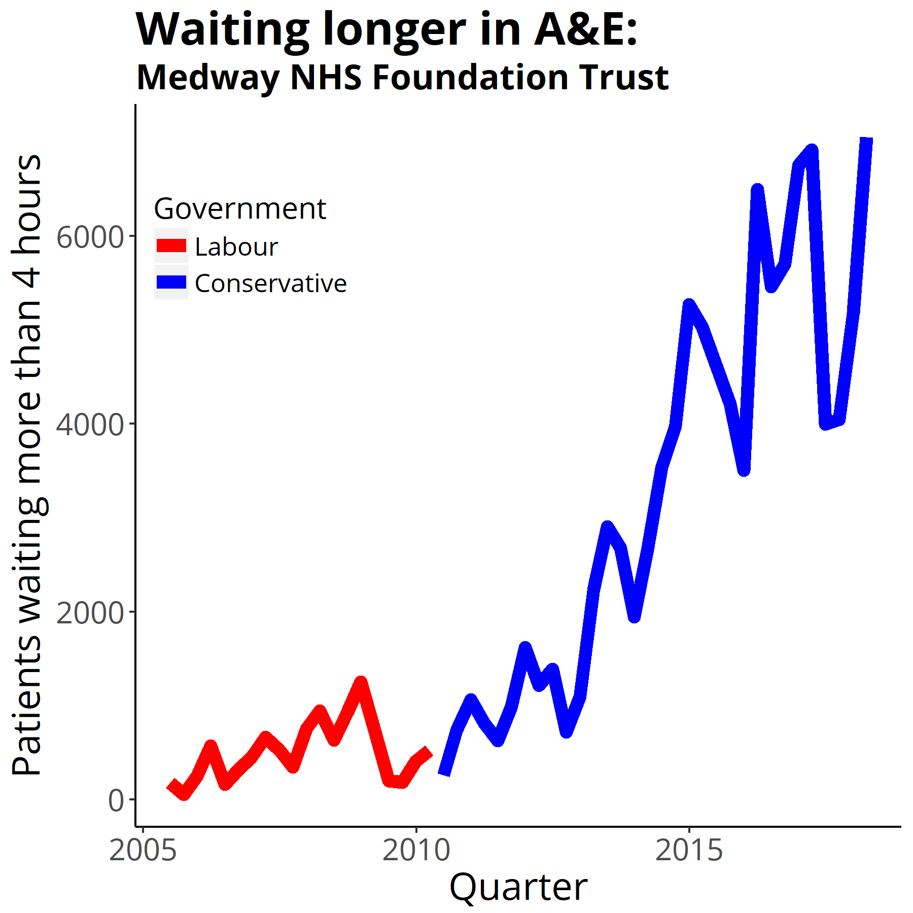 Four-hour target in the emergency department quarterly figures from NHS England Data from